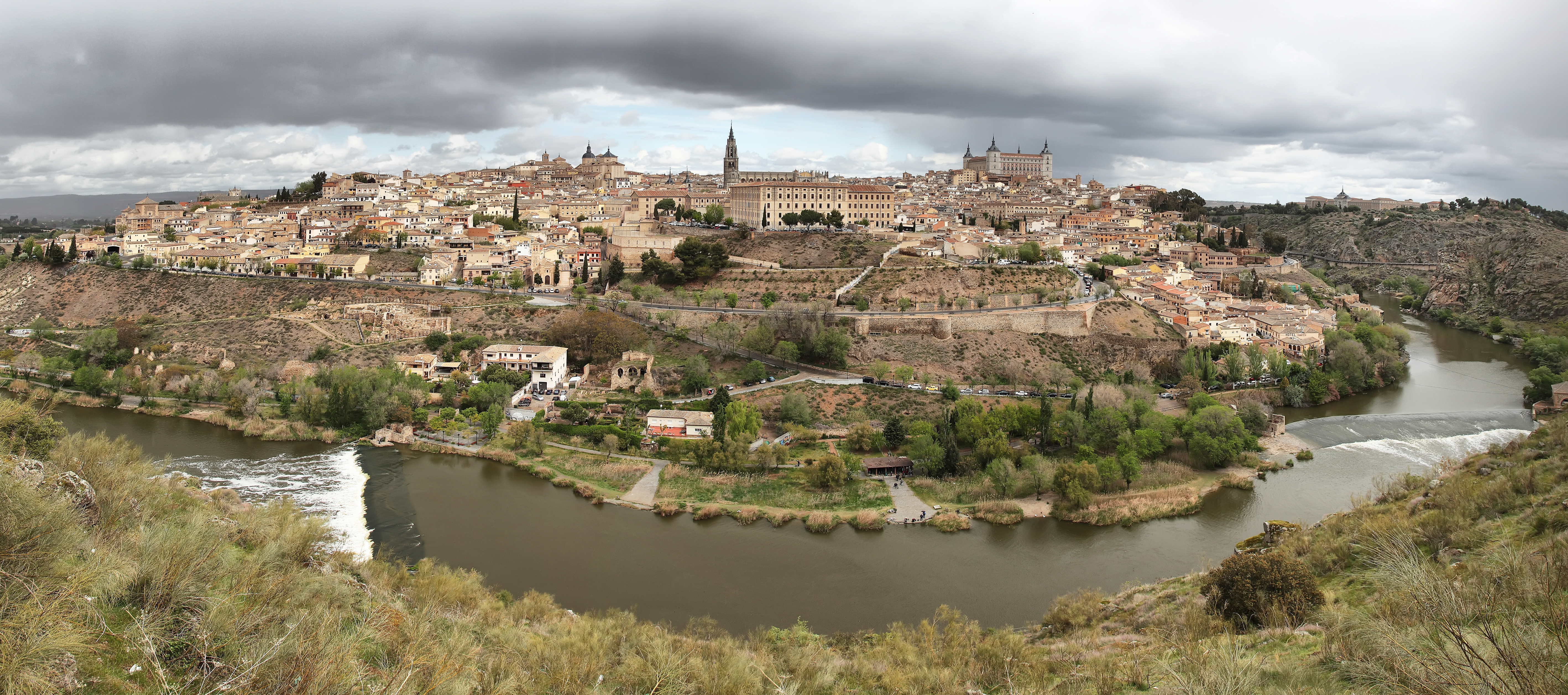 View of Toledo, Spain.